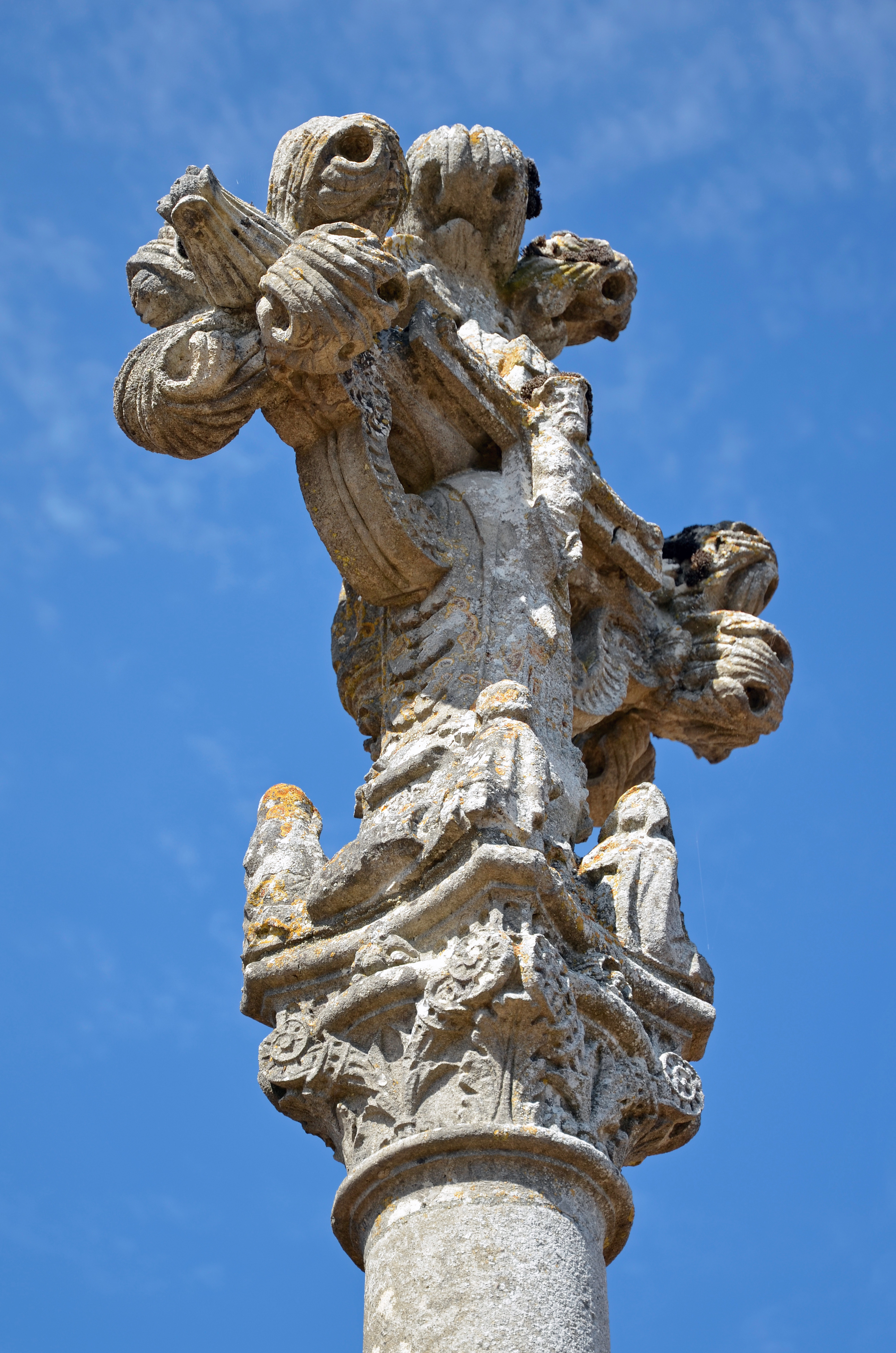 Cross of Boëssé in the cemetery of Yvré-l'Evêque, Sarthe, France .